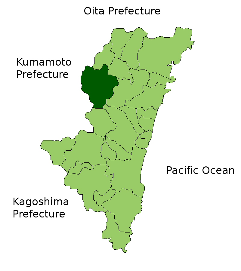 Location Map of Shiba in Miyazaki Prefecture, Japan